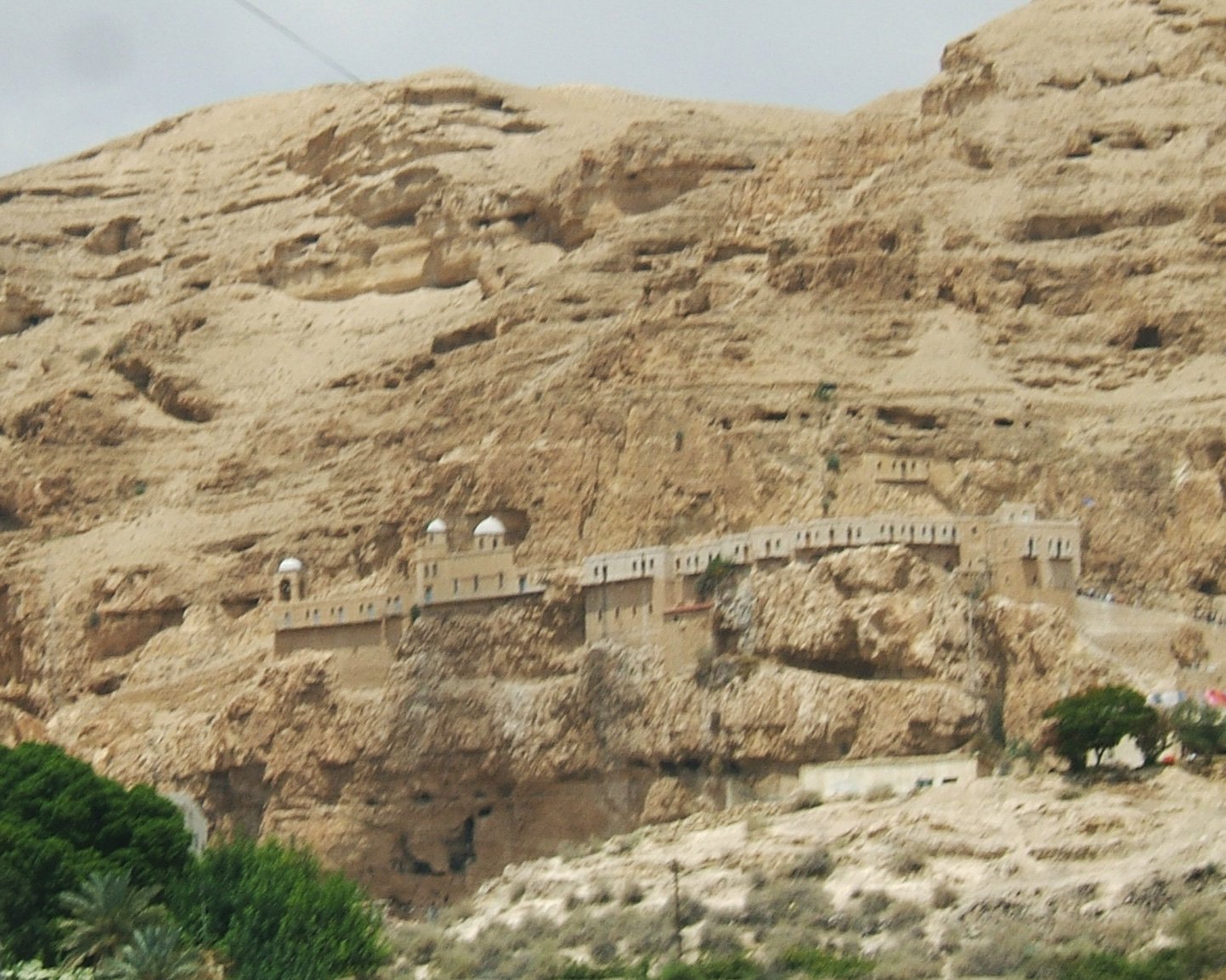 Cliffs overlooking Jericho. Photo taken by Bantosh (myself).